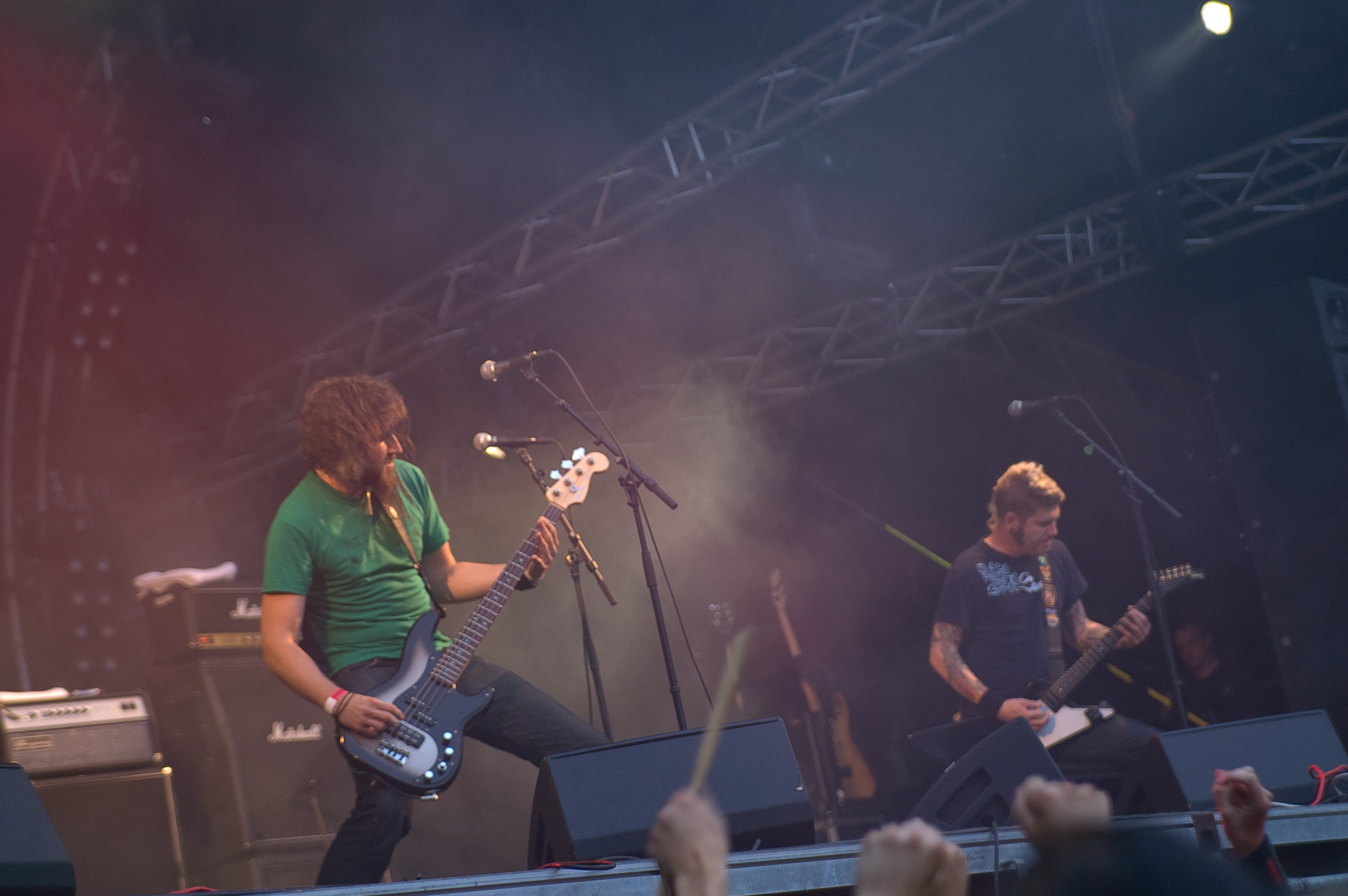 Troy Sanders & Bill Kelliher of Mastodon at Ruisrock 2007